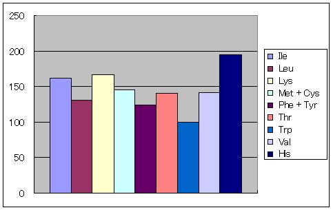 Amino Acid Score of Beef